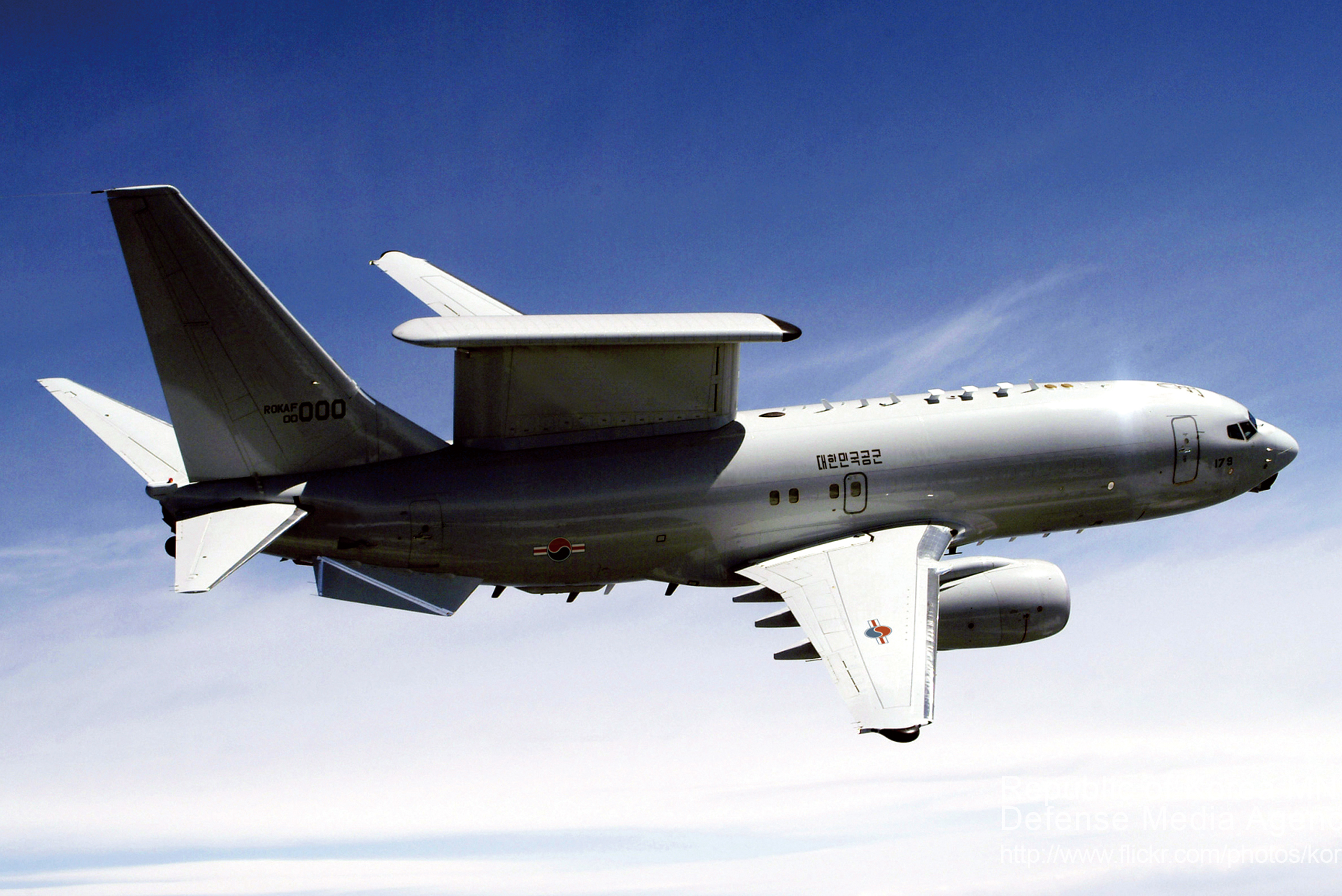 2010 국방화보 Rep. of Korea, Defense Photo Magazine 공중조기경보통제기(E- 737) E-737 Airborne early warning and control system